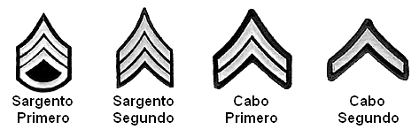 Panama Police Ranks (Non comisioner)